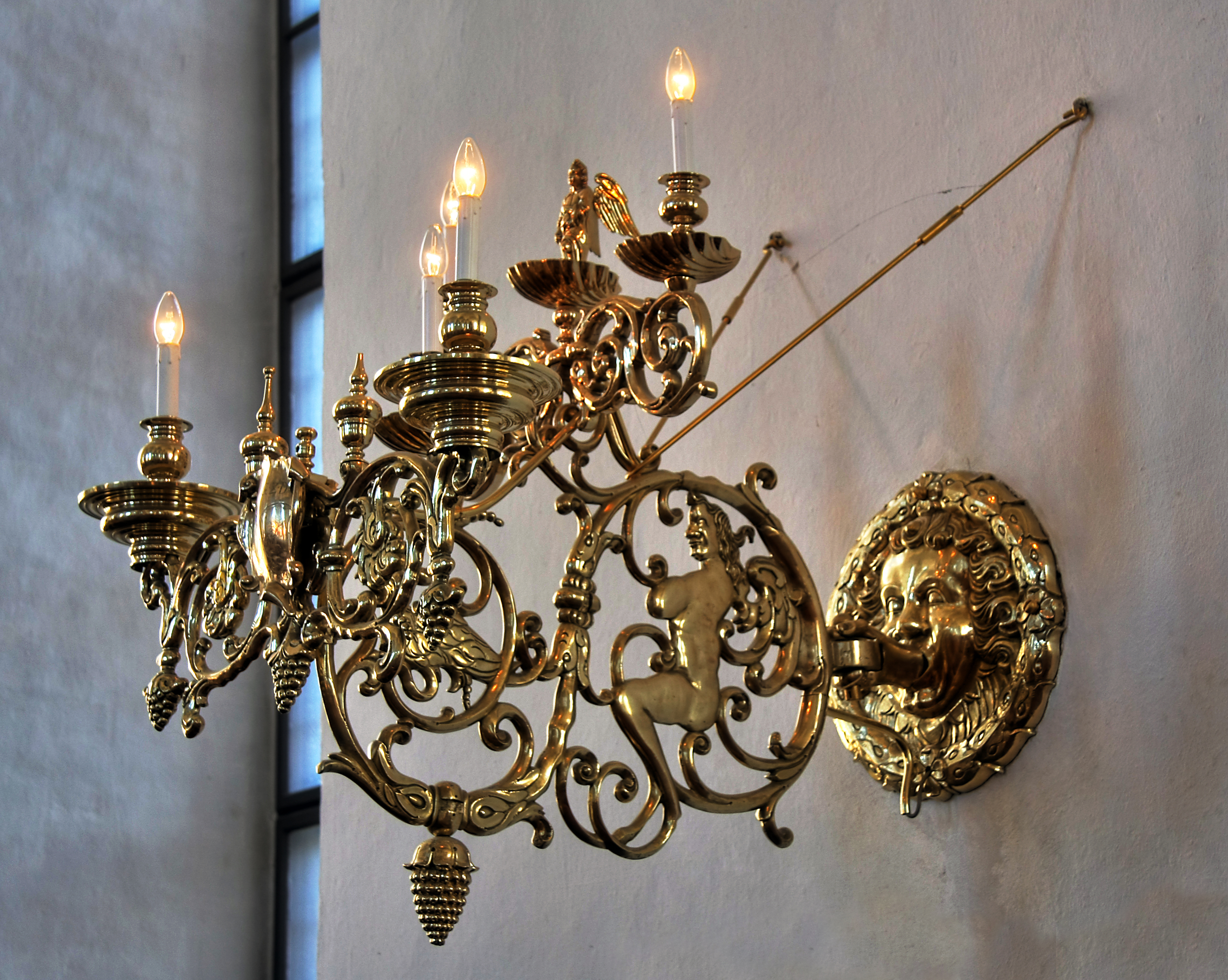 Wall candelabra in Heliga Trefaldighets kyrka (Holy Trinity Church) in Kristianstad, Sweden.